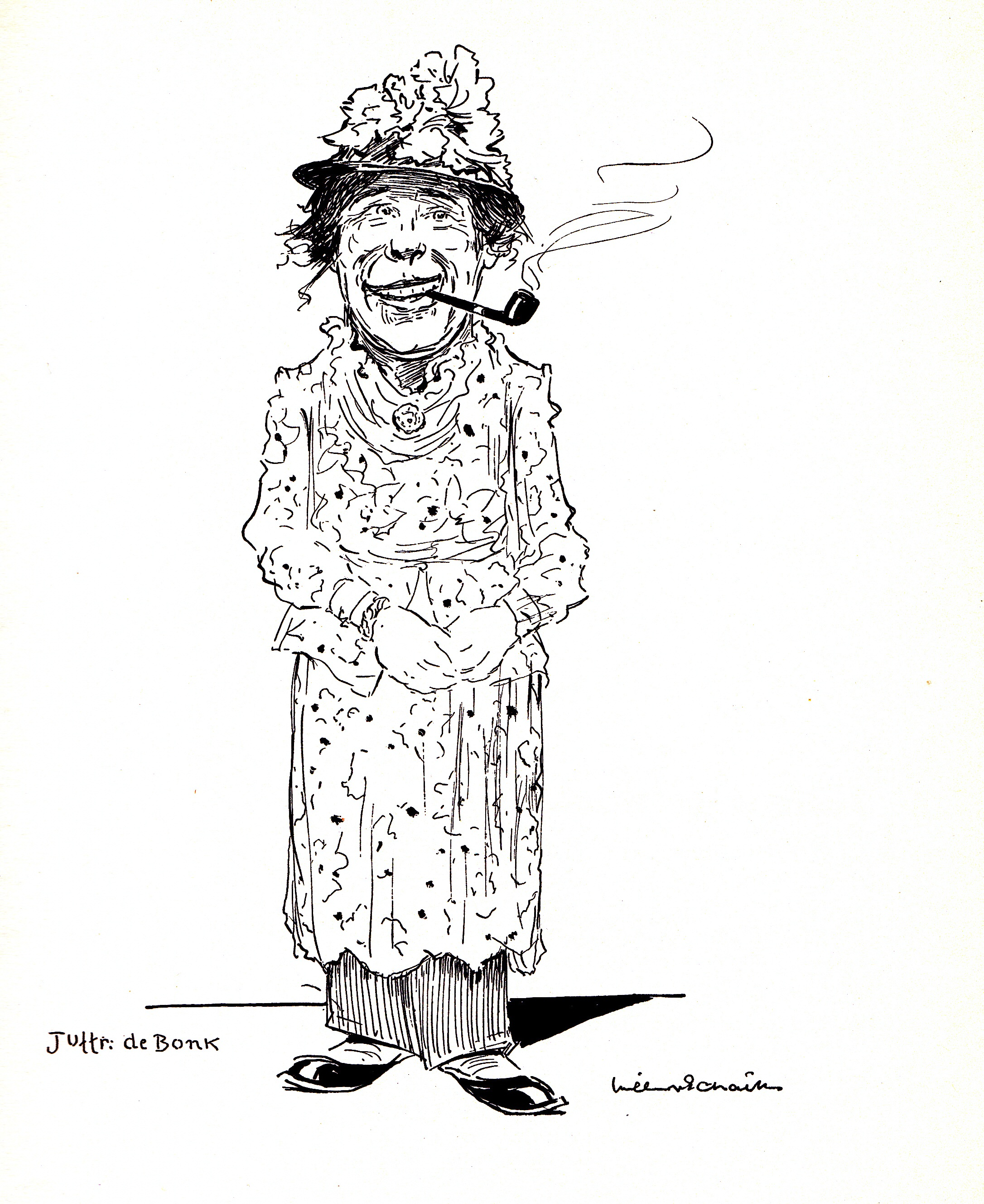 "Juffrouw De Bonk", played by Wam Heskes. Sketch drawn by Willem van Schaik (1876-1938)